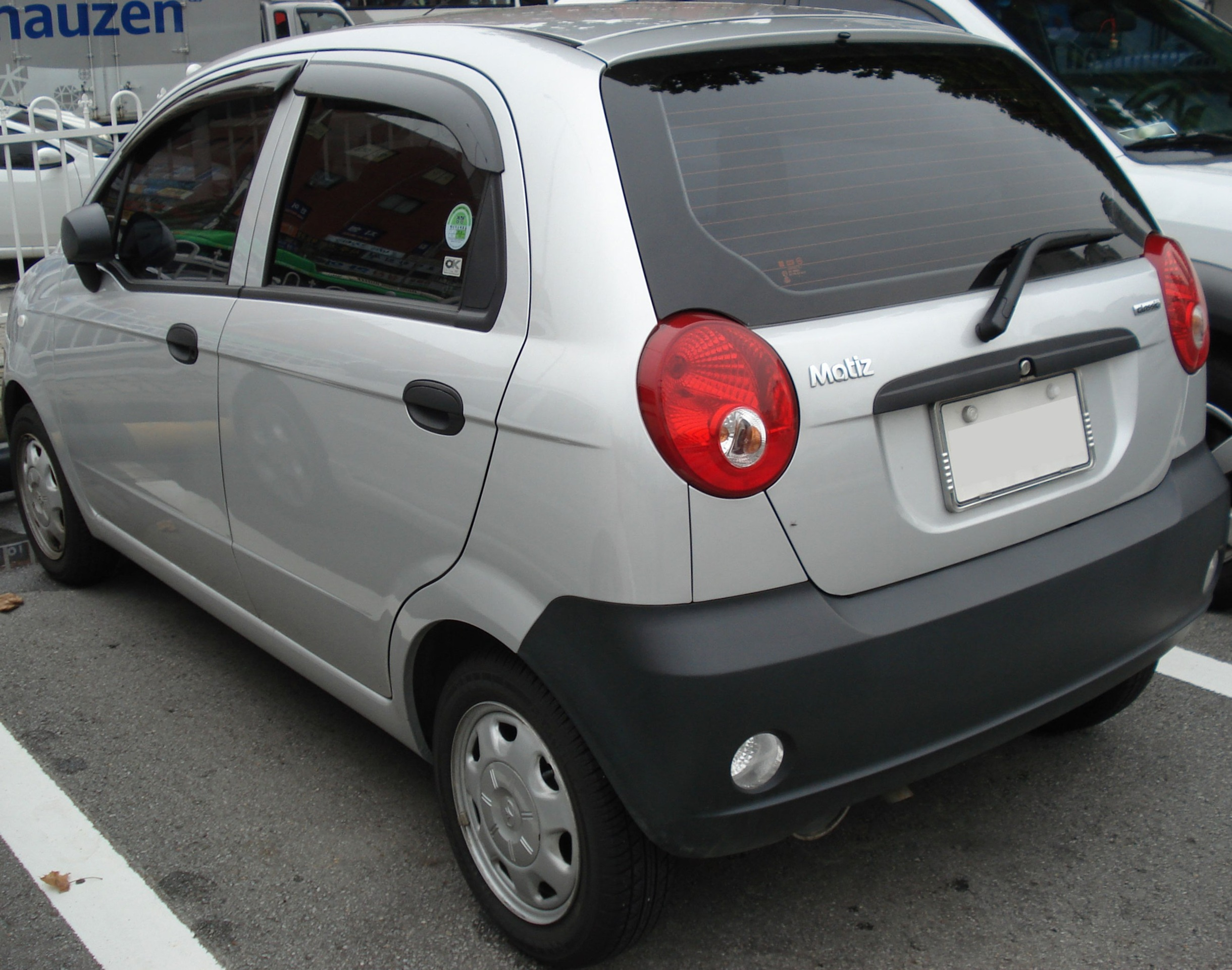 Daewoo Matiz Classic